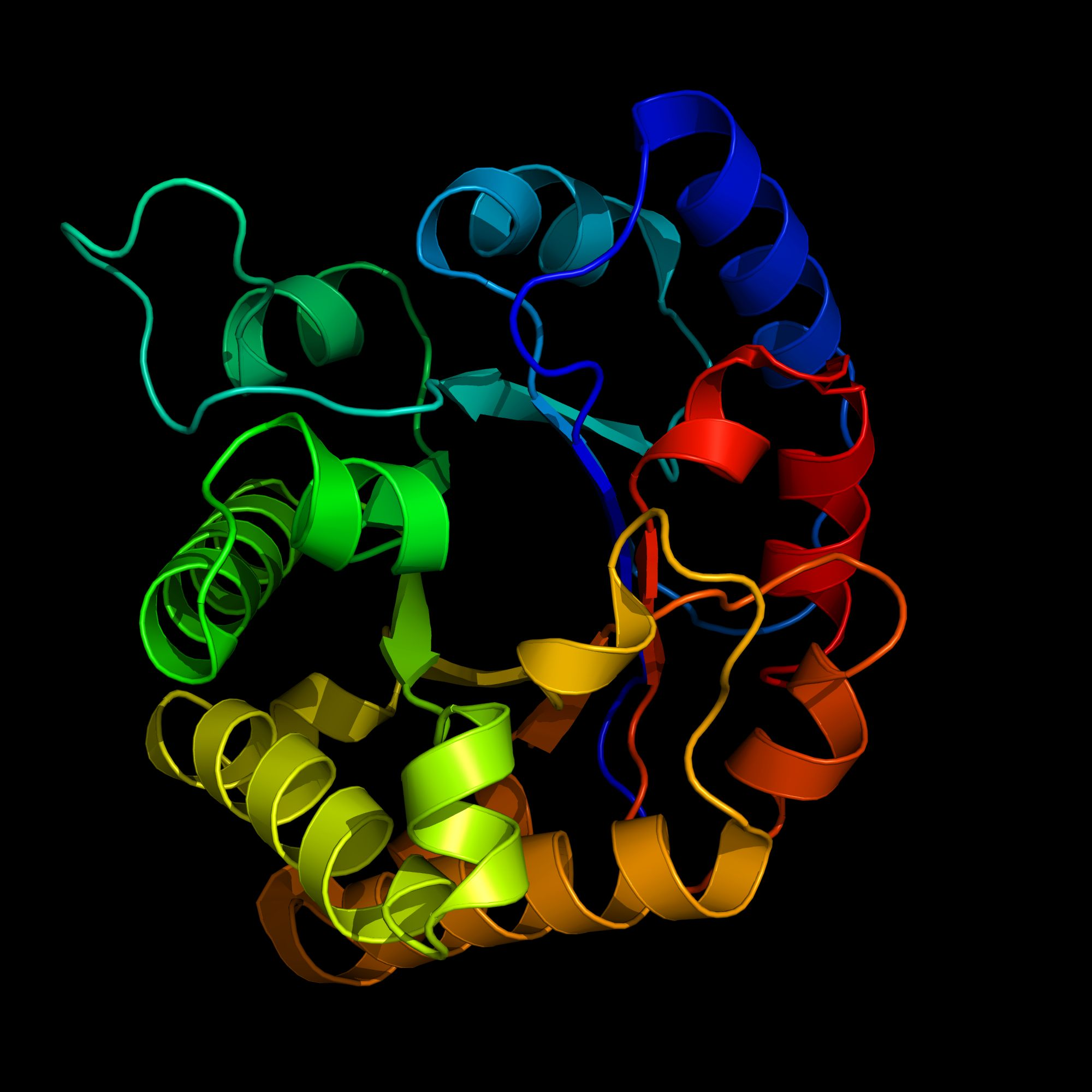 Ribbon diagram of the catalytic perfect enzyme triose-phosphate isomerase (TIM), data taken from pdb 2j27